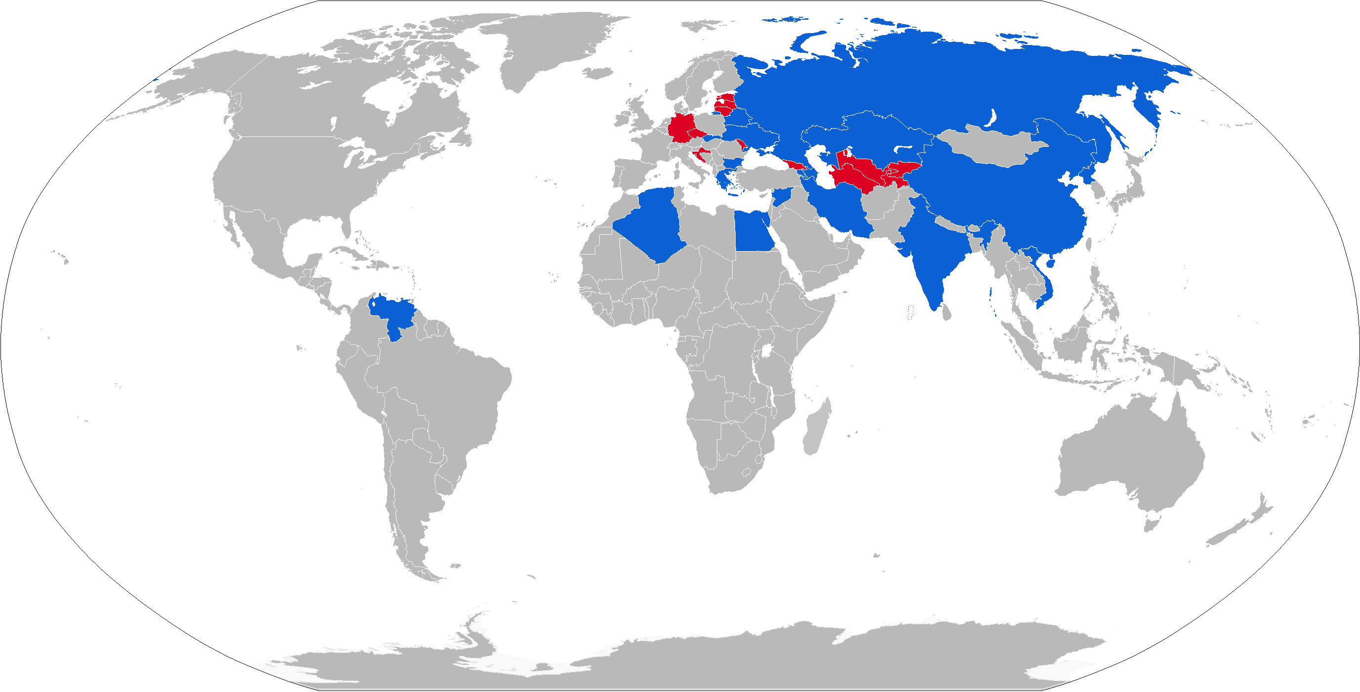 Map with S-300 operators in blue and former operators in red